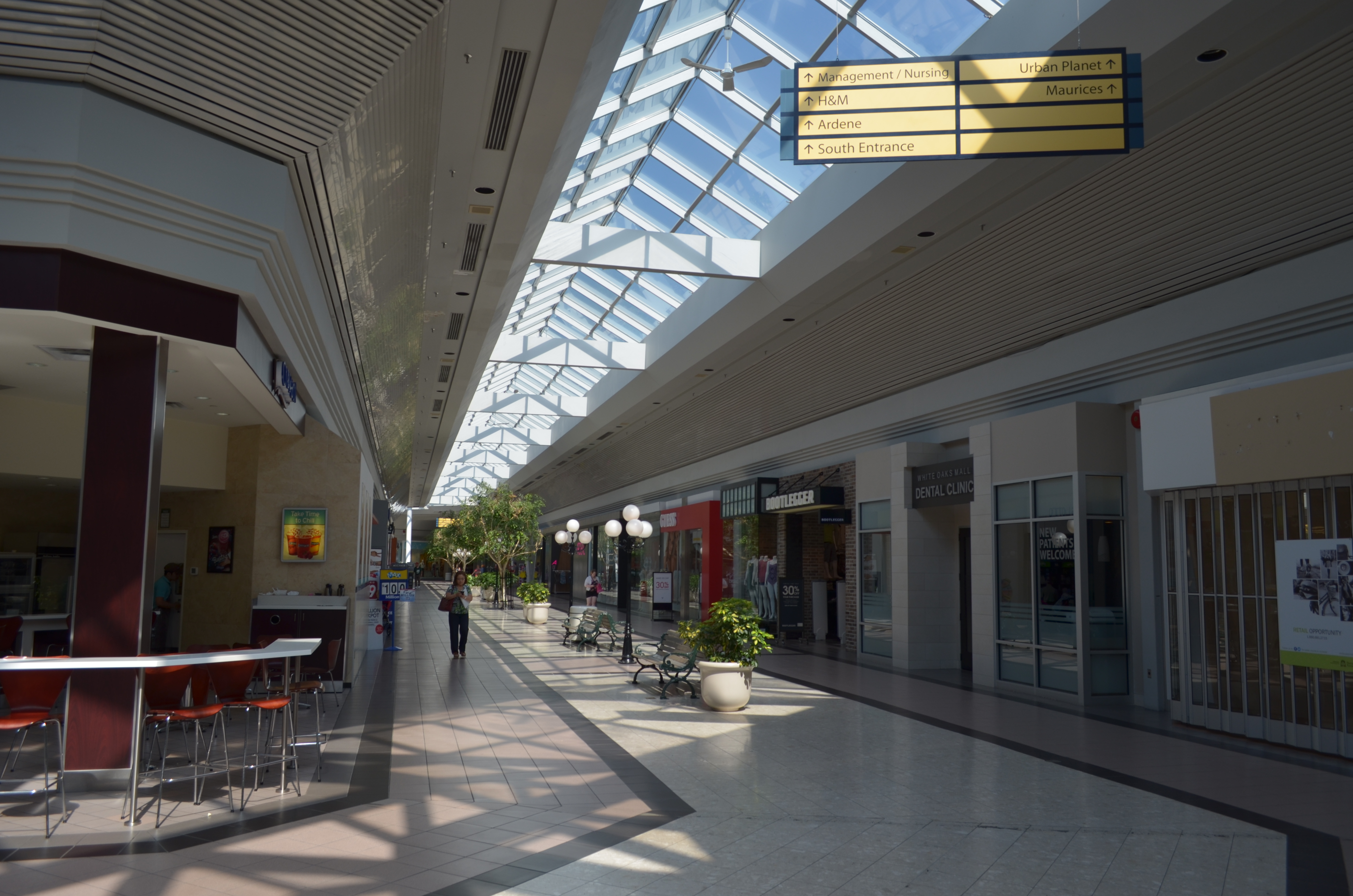 White Oaks Mall - London, Ontario